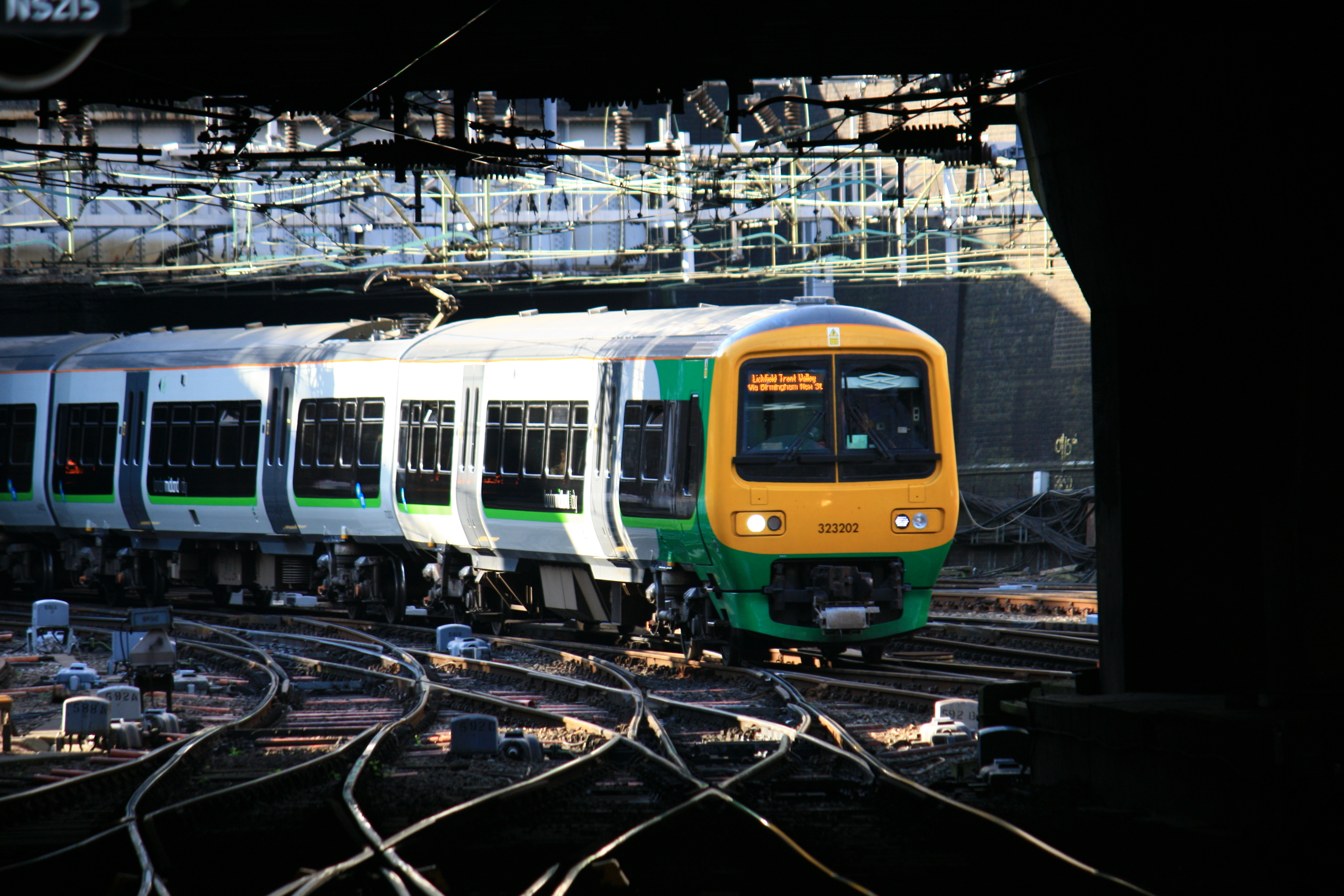 London Midland class 323 arriving at Birmingham UK's New Street station